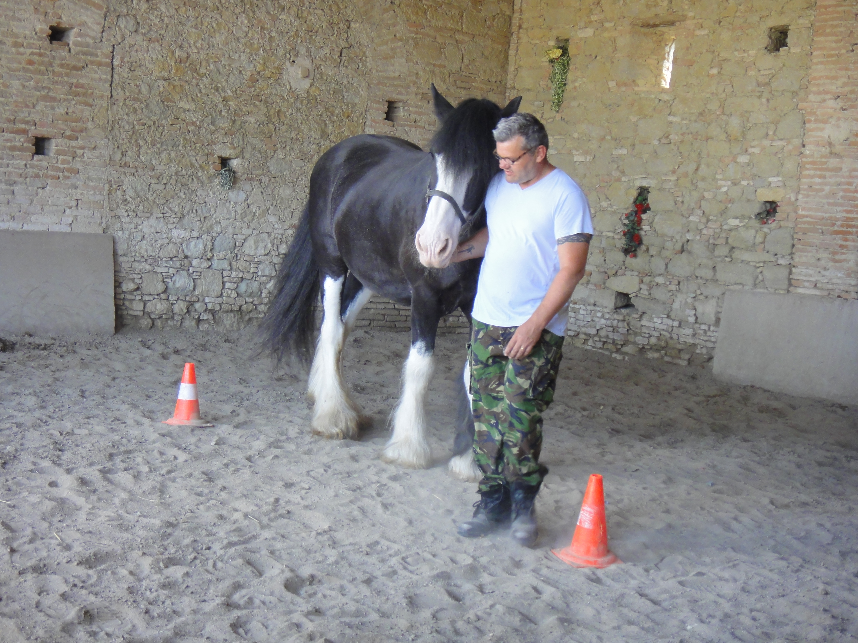 PTSD horse therapy session. association "Vivre à Plein Temps"